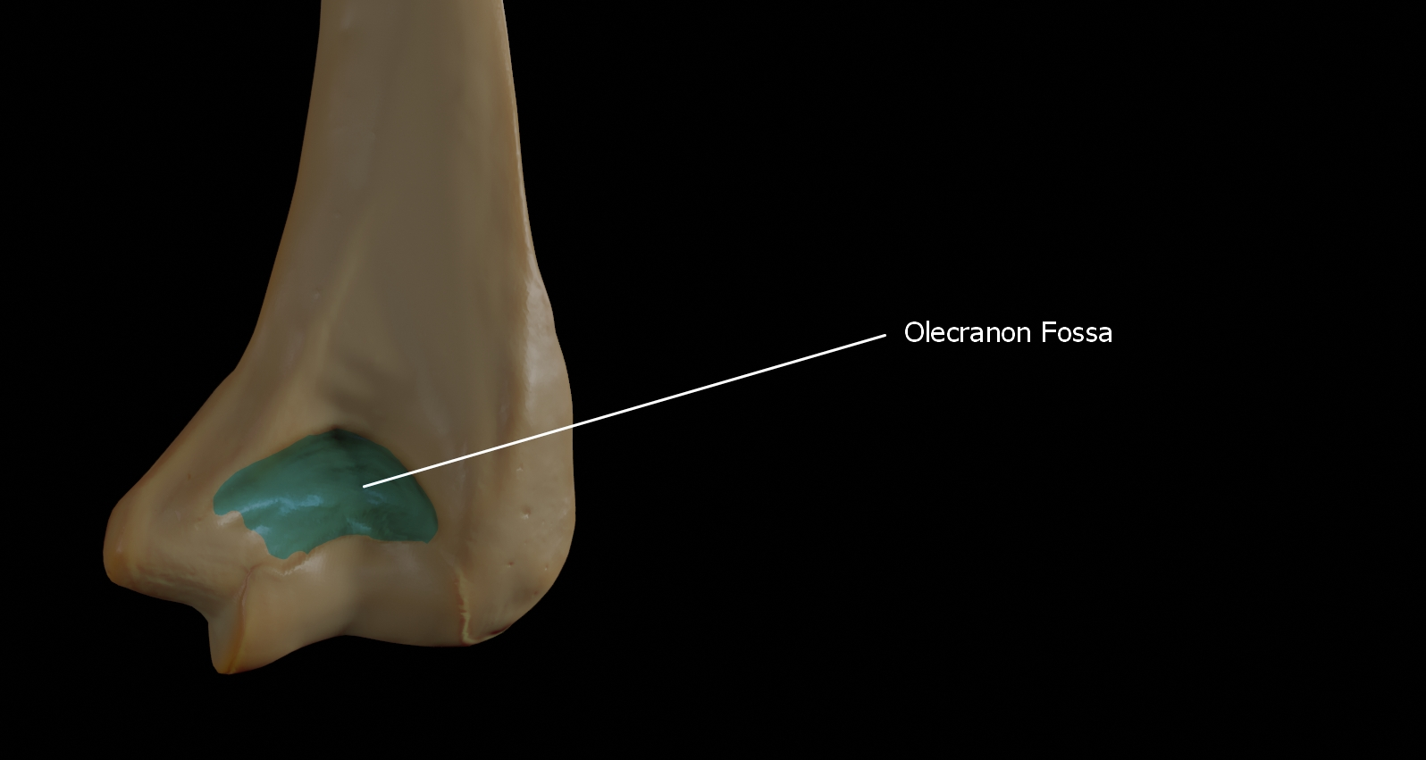 Olecranon fossa is the posterior hollow part on the distal humerus which accommodates the olecranon process of the ulna during extension of the elbow.